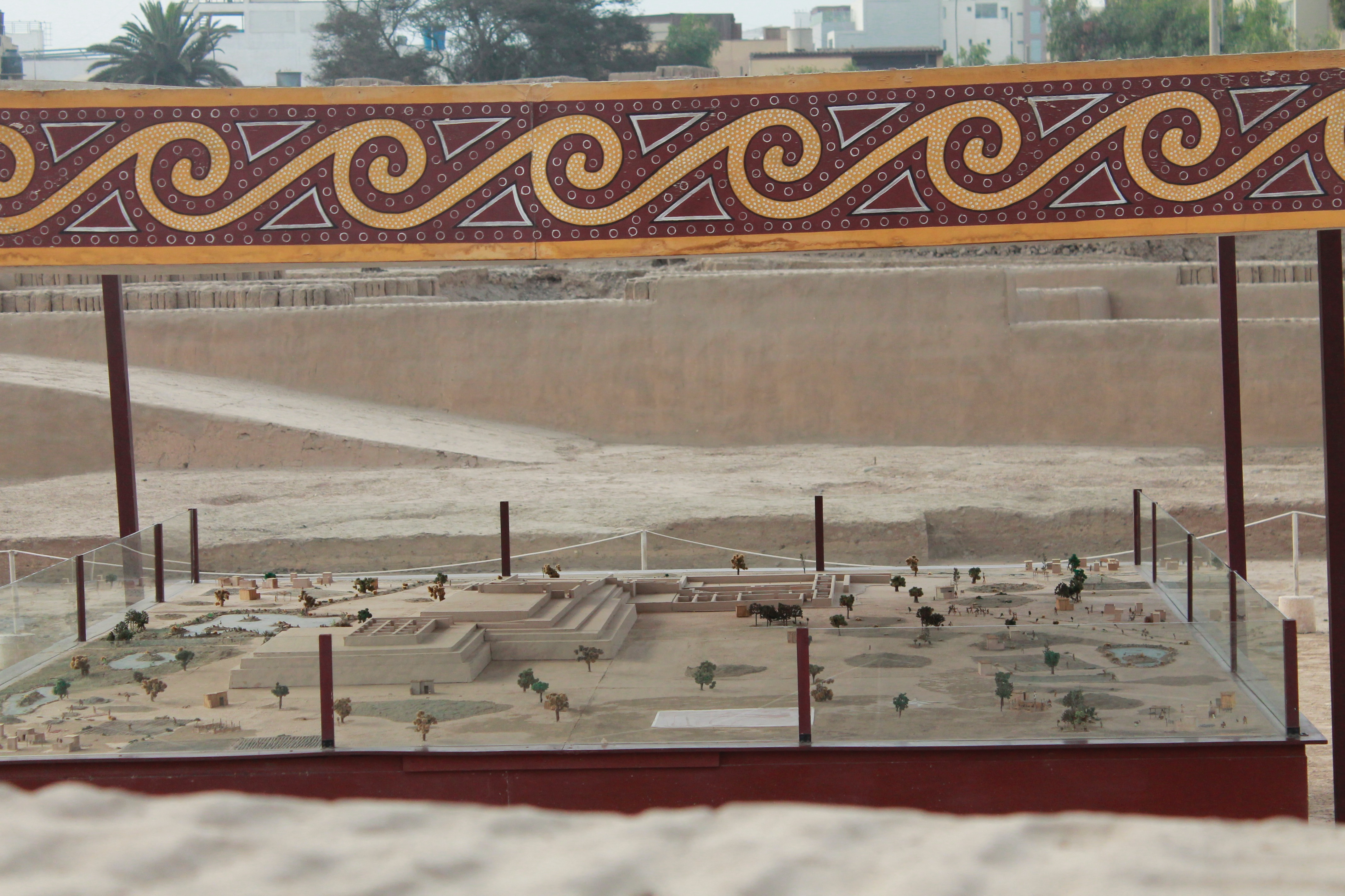 scale representation of the site